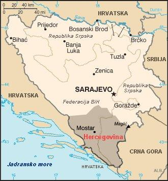 Bosnia (light coloured) and Hercegovina (dark coloured)